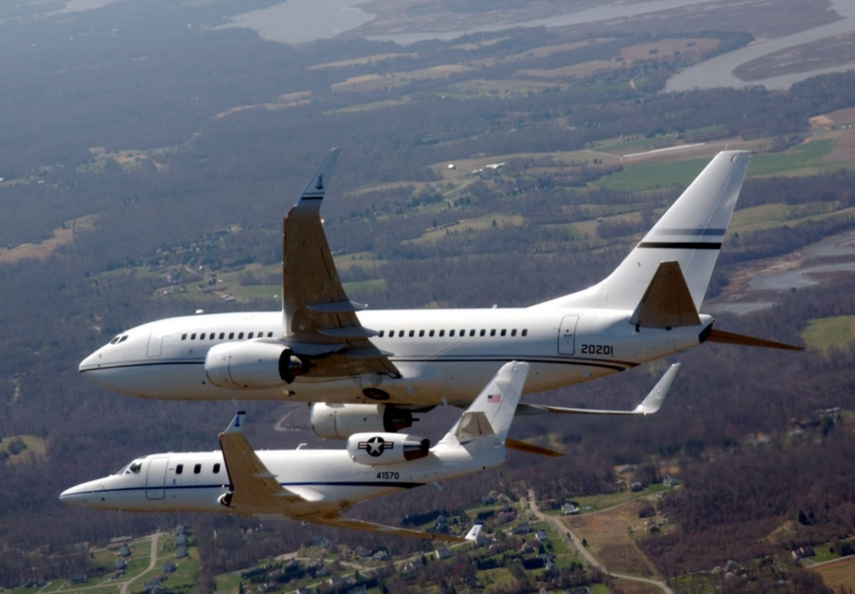 A U.S. Air Force Galaxy Aerospace (IAI) C-38A Courier (s/n 94-1570) and a Boeing C-40C Clipper (s/n 02-0201) of the 201st Airlift Squadron, 113th Wing, District of Columbia Air National Guard, in flight.